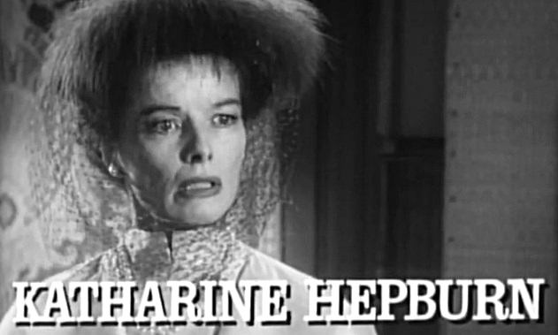 Screenshot of Katharine Hepburn in the trailer for the 1959 film Suddenly, Last Summer.